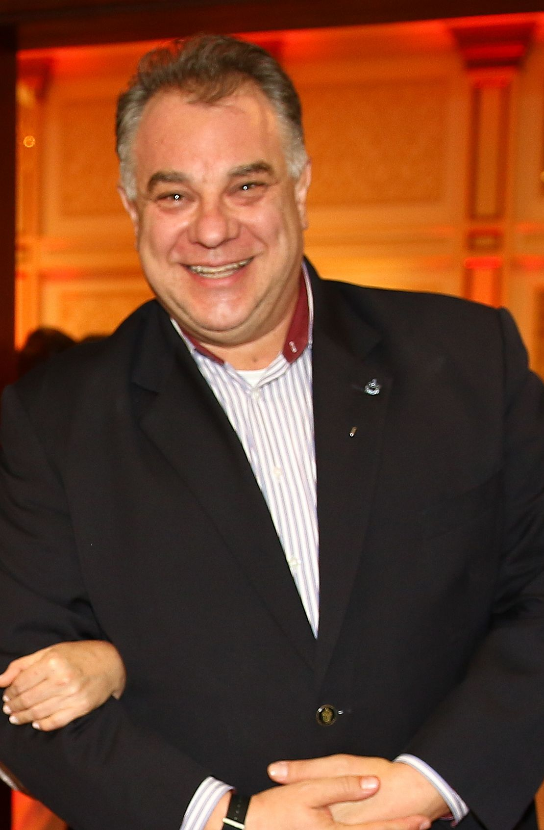 Dr. Miroslav Nenkov Nenkov - Bulgarian physician anesthetist and former vice minister of health of Bulgaria.